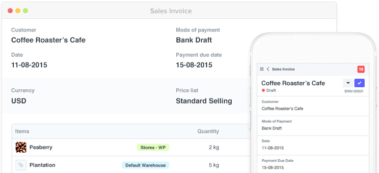 Screenshot of ERPNext, showing responsiveness of its interface